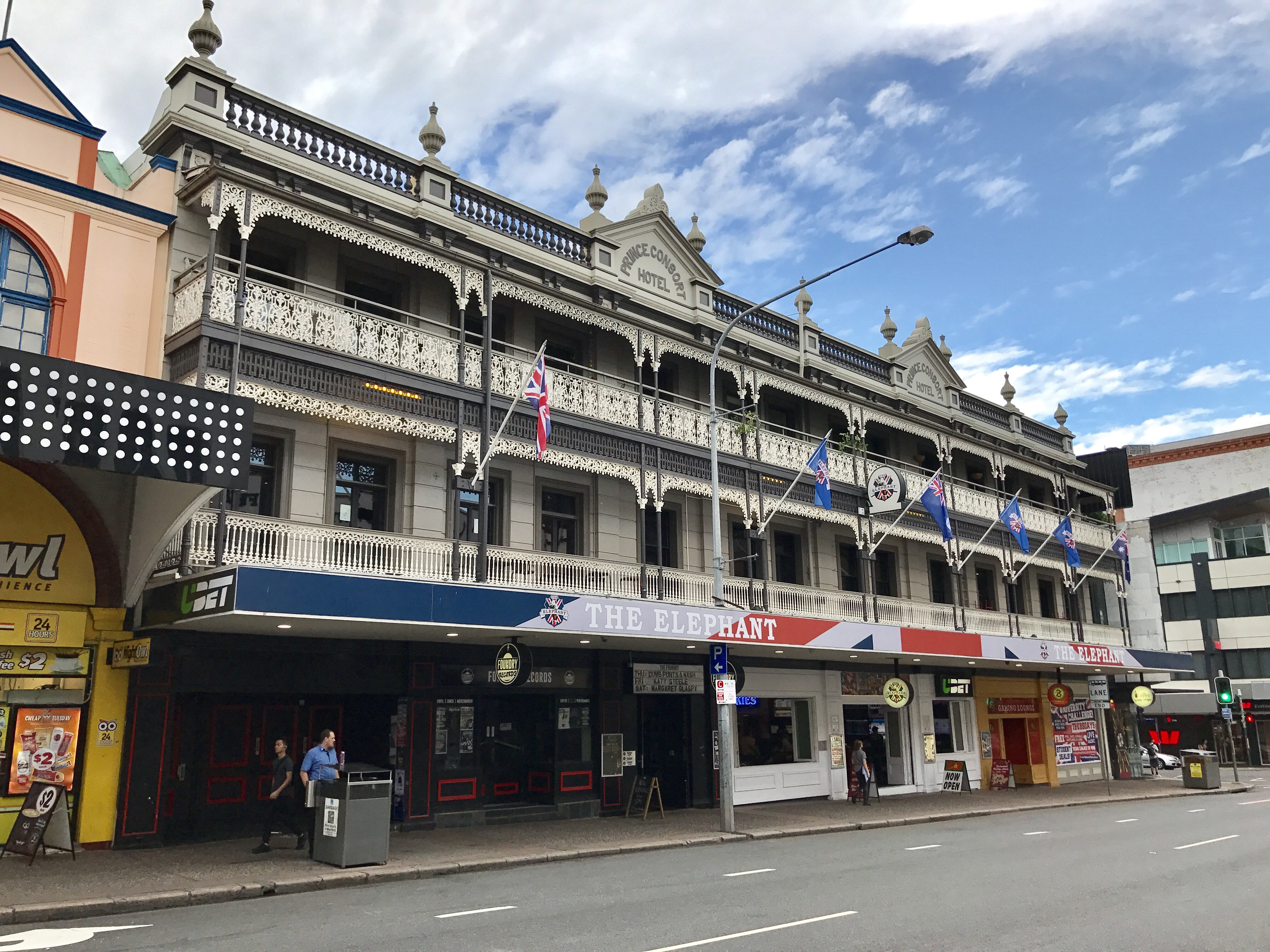 Prince Consort Hotel, Brisbane, Australia